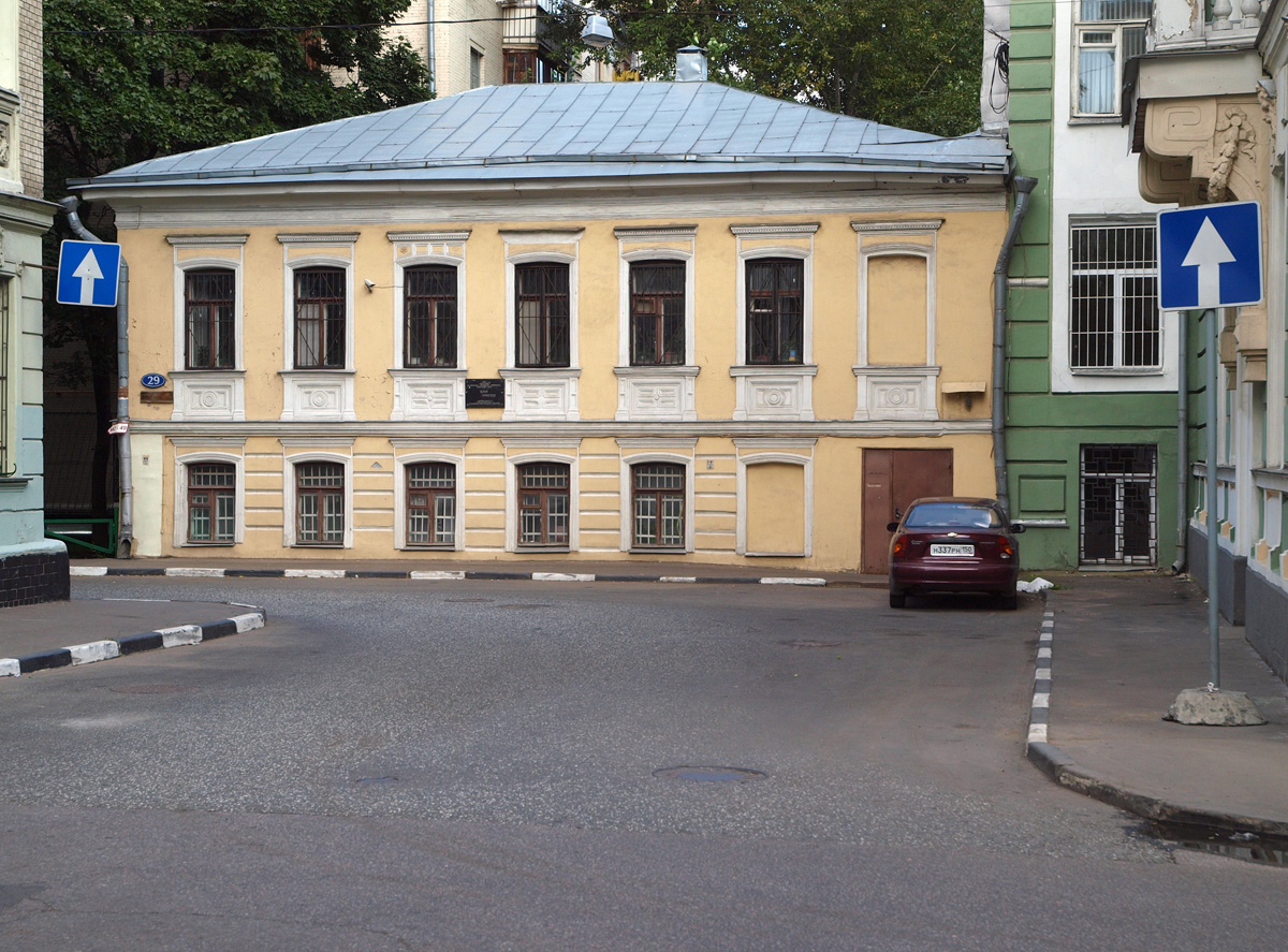 East end of Lyalin Lane, Moscow.